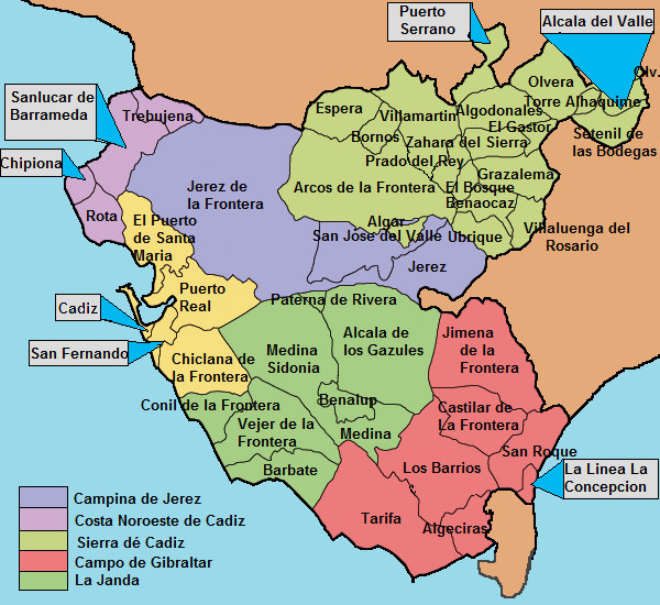 All municipalities and provinces of Province of Cadiz.